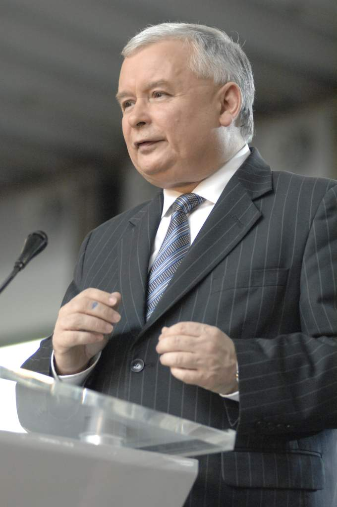 Former polish Prime Minister Jarosław Kaczyński in Lublin